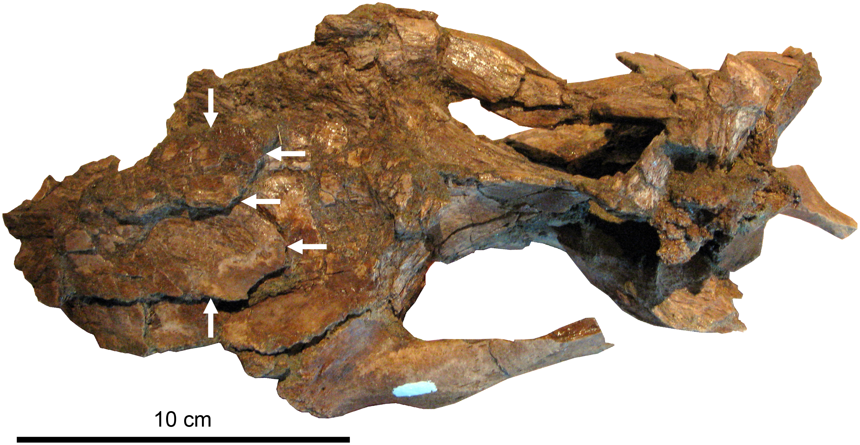 Subadult Brachylophosaurus canadensis braincase MOR 940 in dorsal view. Anterior is to the left. Specimen is from the Judith River Formation near Malta, Montana, in a horizon equivalent to the Comrey Sandstone Zone of the middle Oldman Formation. Borders of the nasals are indicated by white arrows. The specimen is heavily fractured, and the nasals are slightly elevated above the frontals, but this is due to fracturing; when undeformed, the nasals would have lain flush over the frontals, with no open space in between. There is no projection forming an overhanging, posteriorly oriented nasal crest as would be seen in larger Brachylophosaurus canadensis specimens.